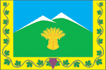 Flag of Prohladnensky rayon, Kabardino-Balkaria, Russia.